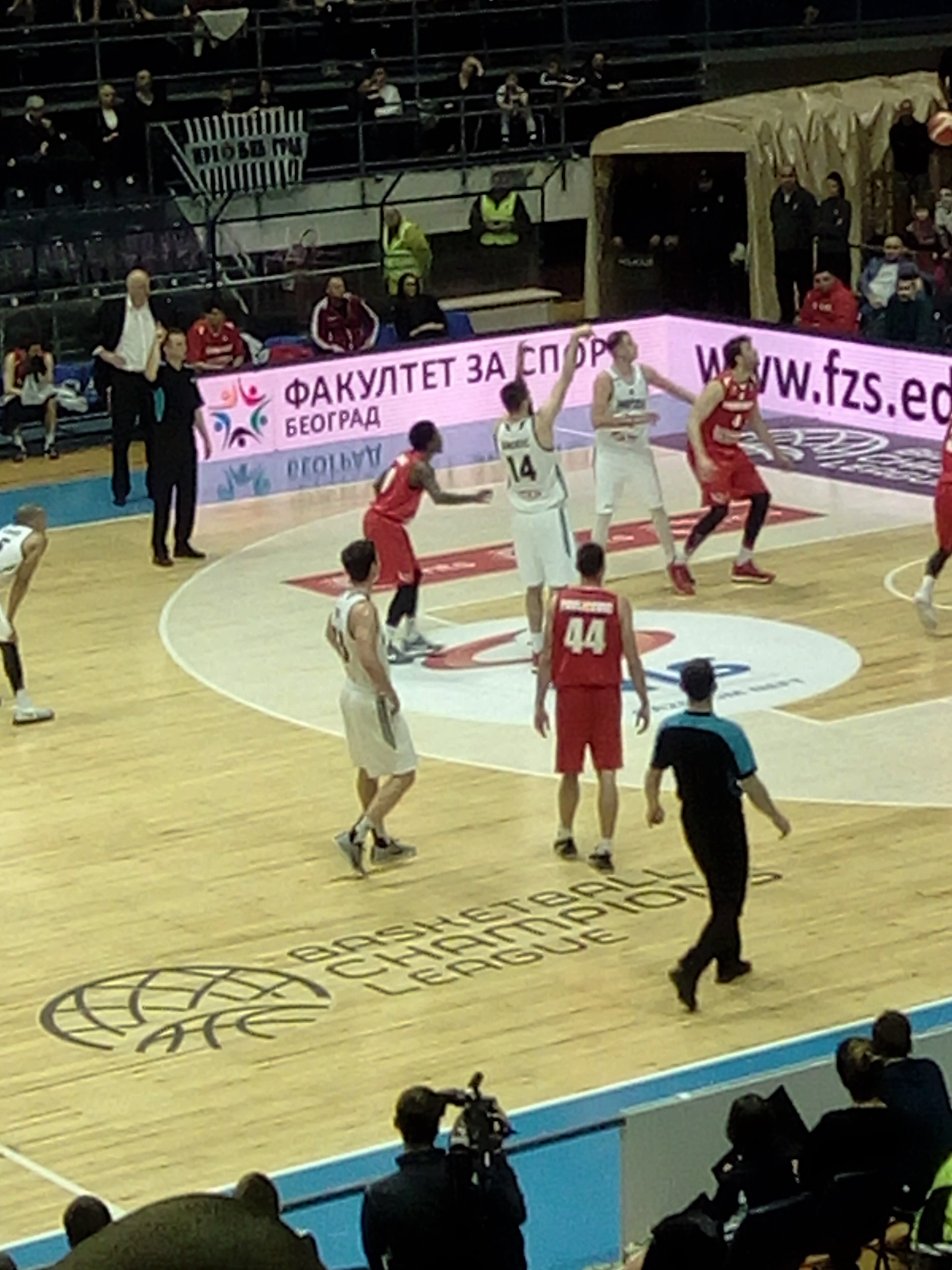 Basketball Champions League: KK Partizan - Szolnoki Olaj KK 77:67